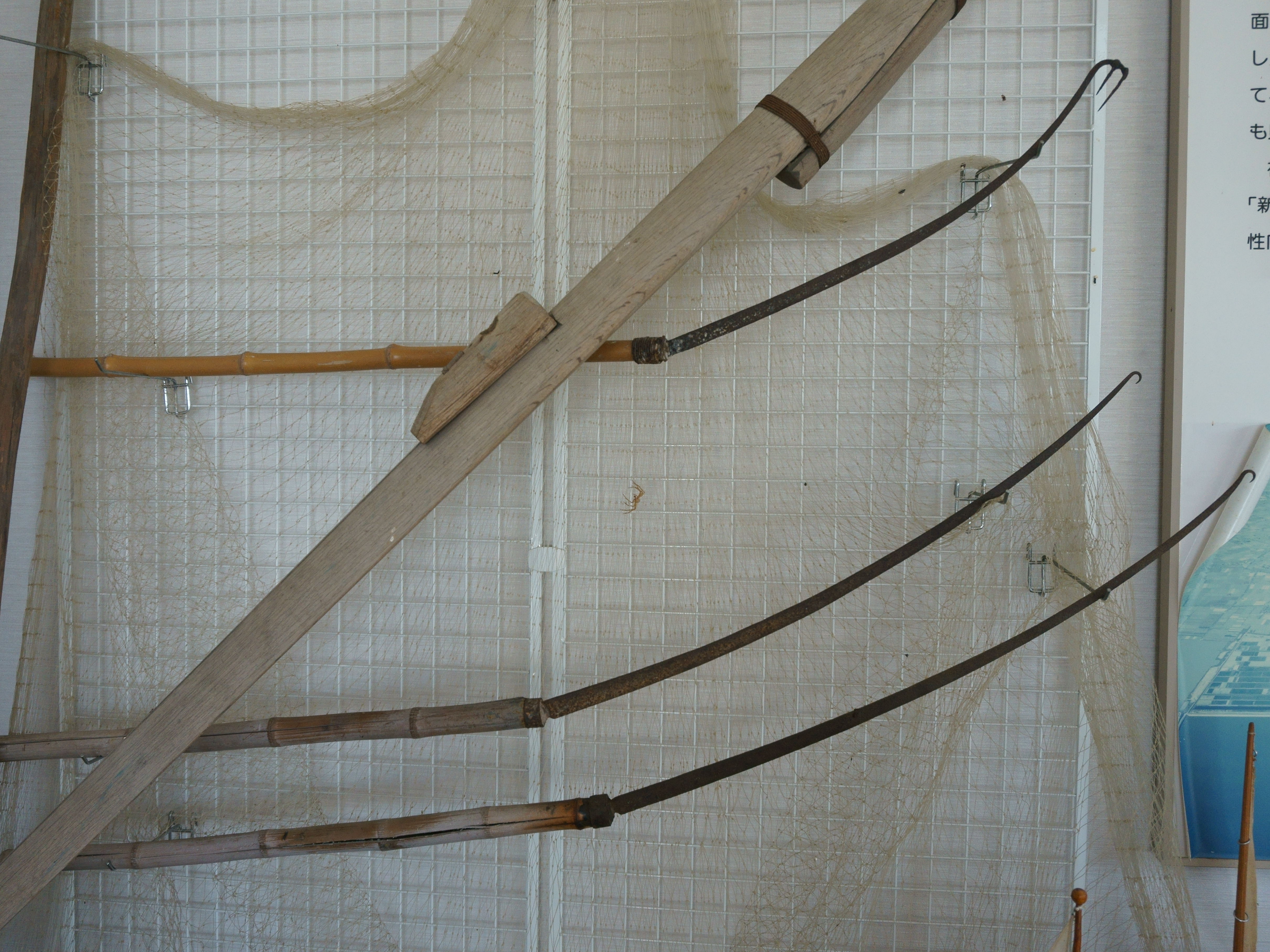 Fishing tools for take Warasubo(Odontamblyopus lacepedii) or Unagi(Anguillidae), displayed at Fureai Kantaku-kan, in Shiroishi, Saga prefecture.